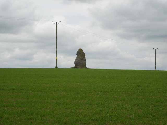 The Candle Stone A megalithic standing stone overlooking the valley of the Ebrie Burn.